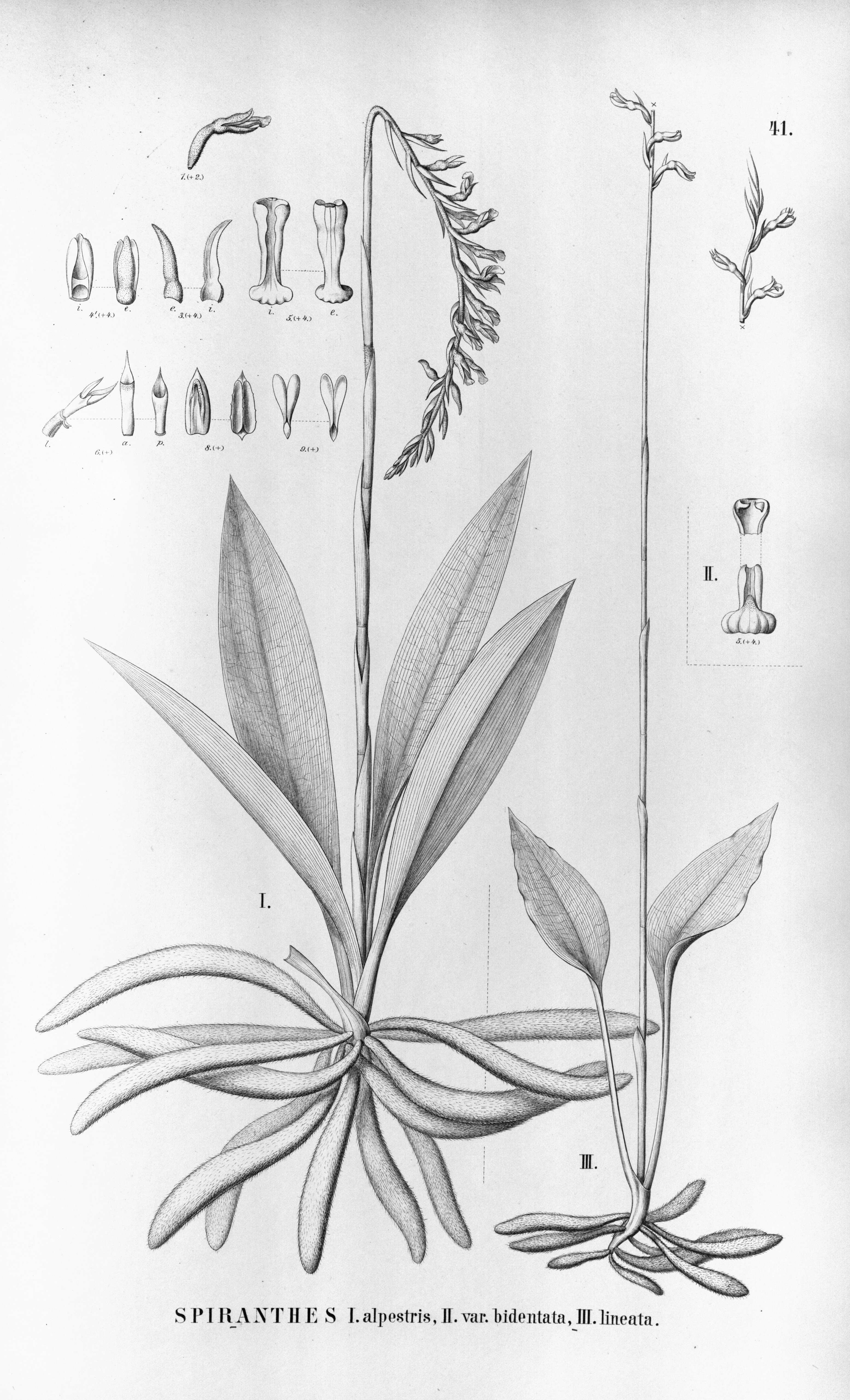 Illustration of: I and II. Cyclopogon congestus (as syn. Spiranthes alpestris and Spiranthes alpestris var. bidentata)) III. Hapalorchis lineata (as syn. Spiranthes lineata)